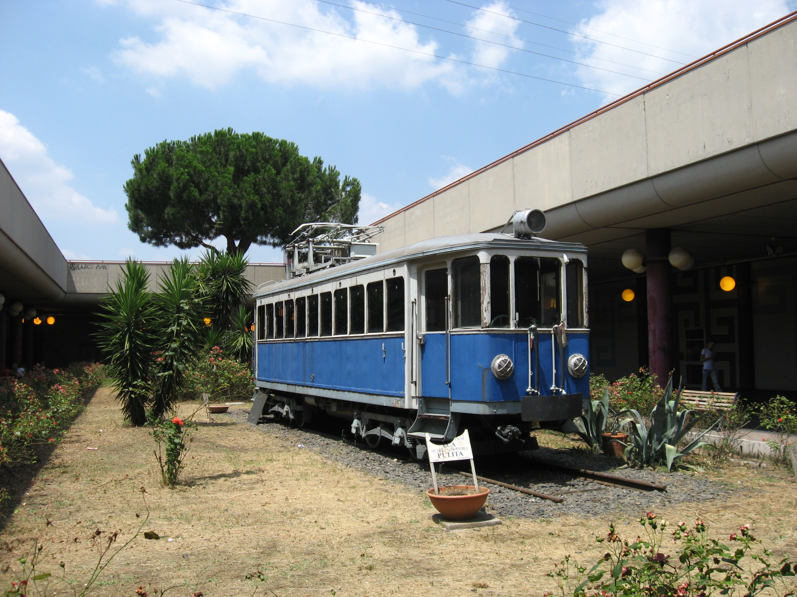 Preserved tram in the metro/busstation of Anagnina